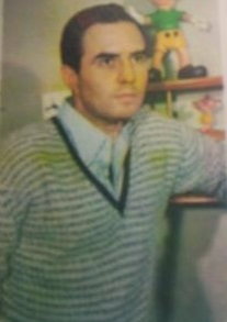 Rodolfo Salerno- actor